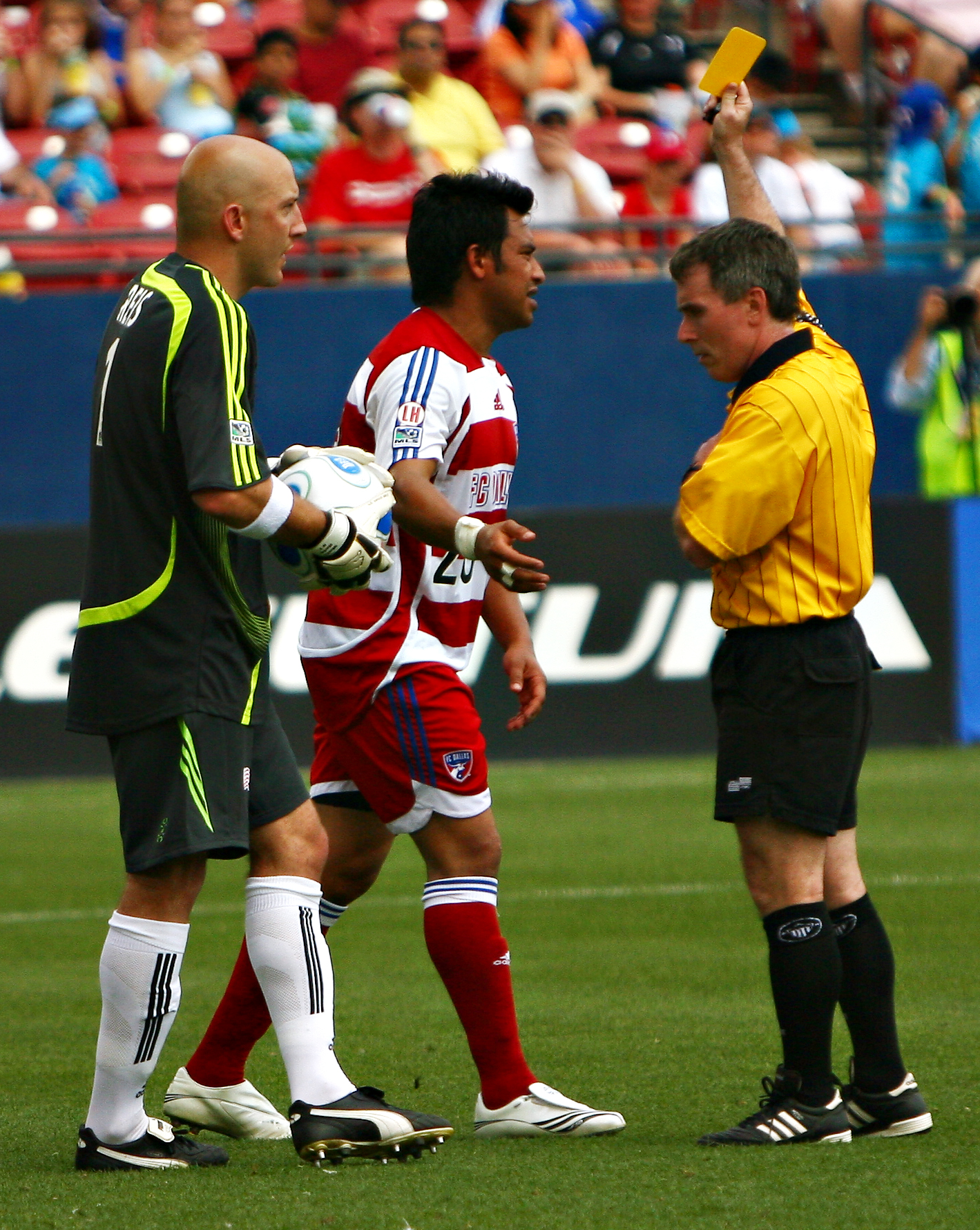 Carlos Ruiz receives a yellow card, Matt Reis also pictured.